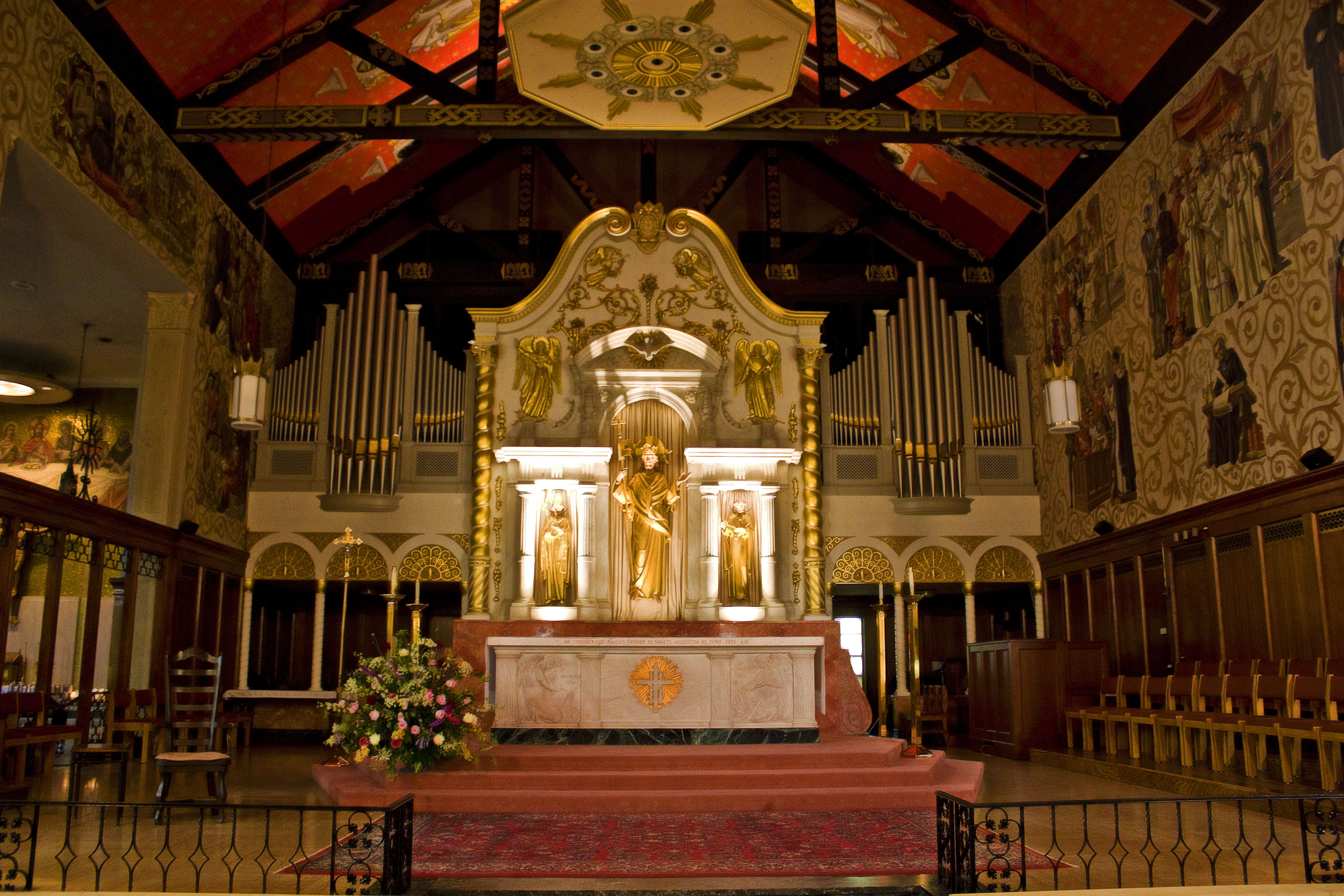 The Interior of St Augustine church